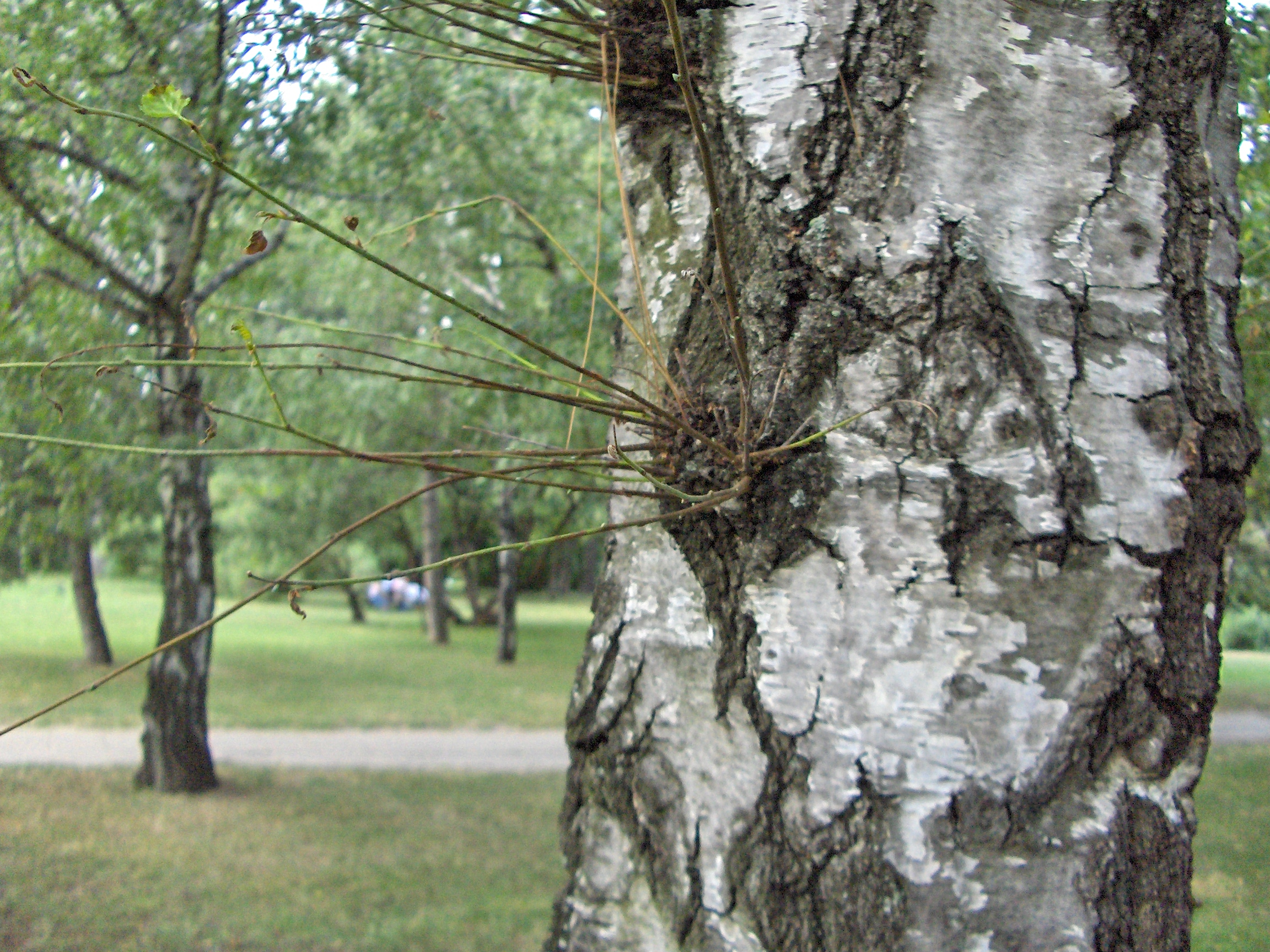 Water shoot/epicormic shoot/sap shoot/water sprout on a tree (Betula pendula)